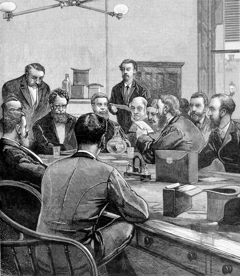 Scene from the Royal Commission into police conduct during the 'Kelly Outbreak'.